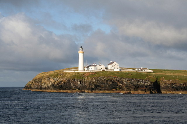 A western view of the Cantick Head lighthouse